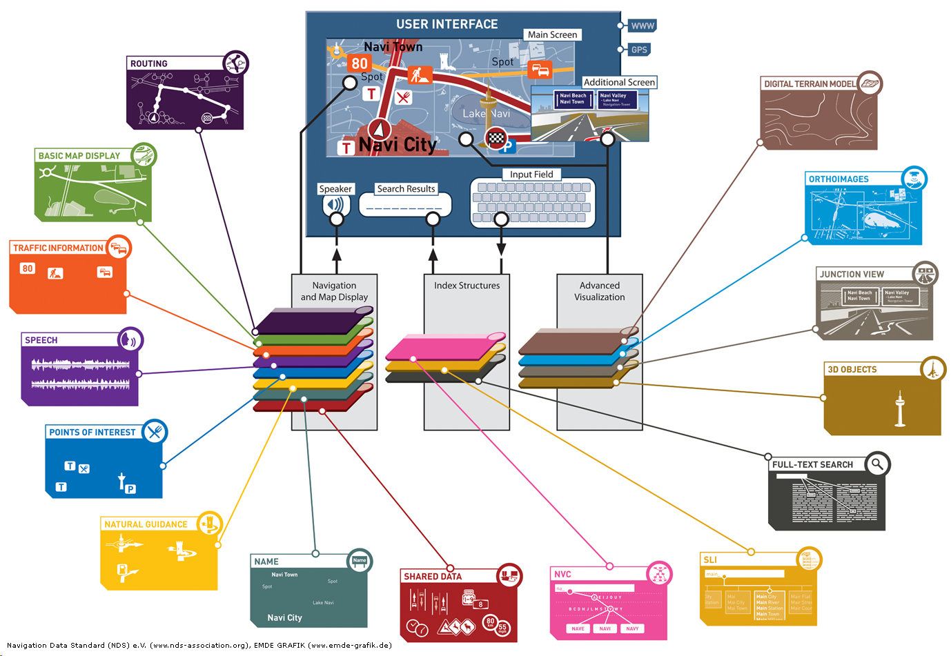 Overview of the NDS building blocks